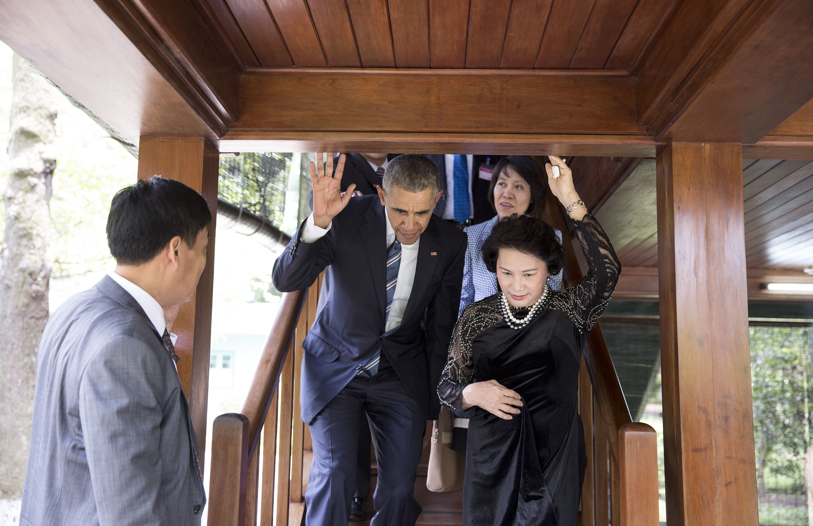 President Barack Obama ducks down under a low beam as he descends a staircase with Nguyen Thi Kim Ngan, Chairwoman of the National Assembly of the Socialist Republic of Vietnam, during a tour of Stilt House in Hanoi, Vietnam, May 23, 2016. (Official White House Photo by Pete Souza)